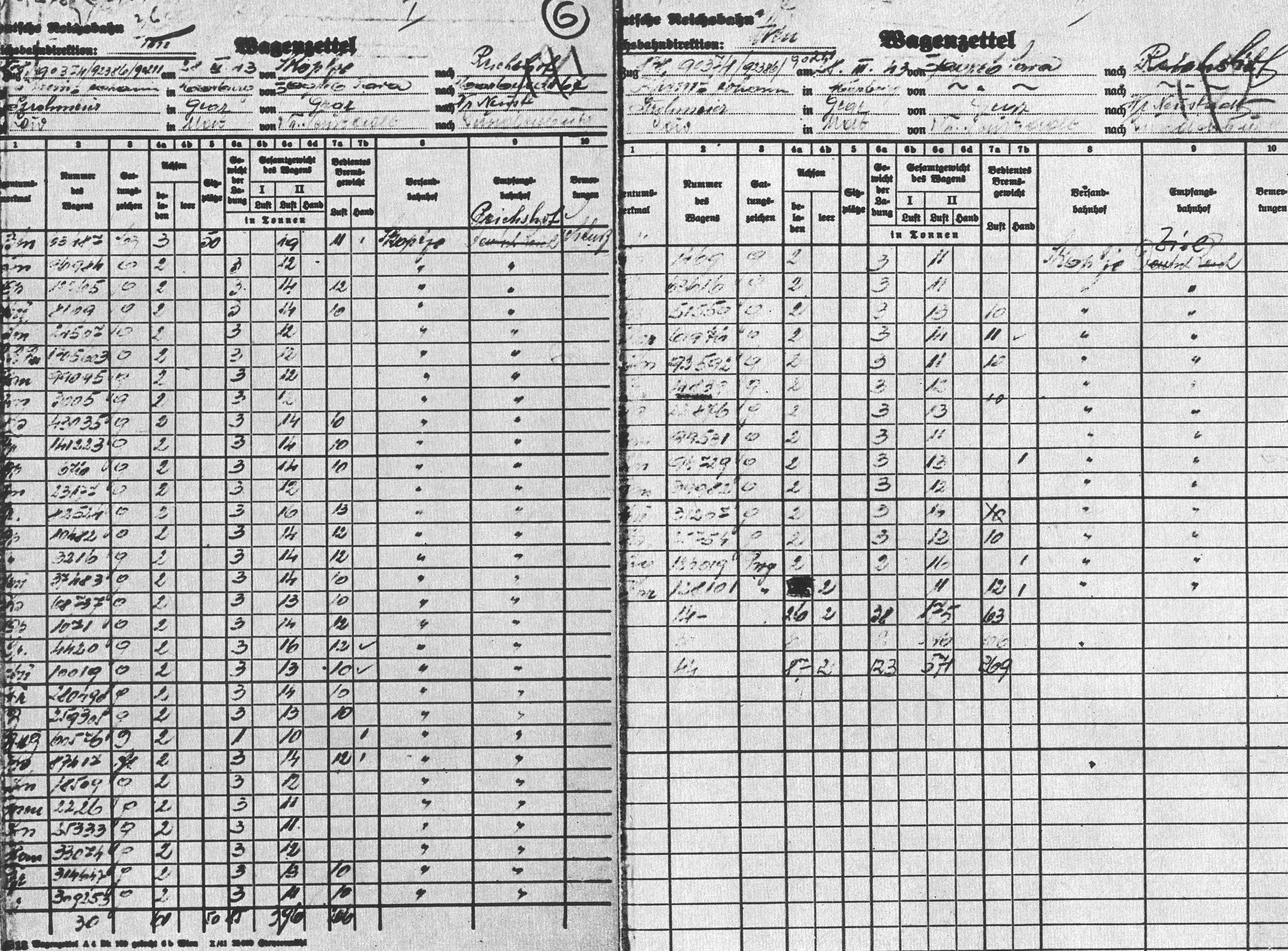 List of railway cars used in transort of the Jews deported from Skopje to Treblinka